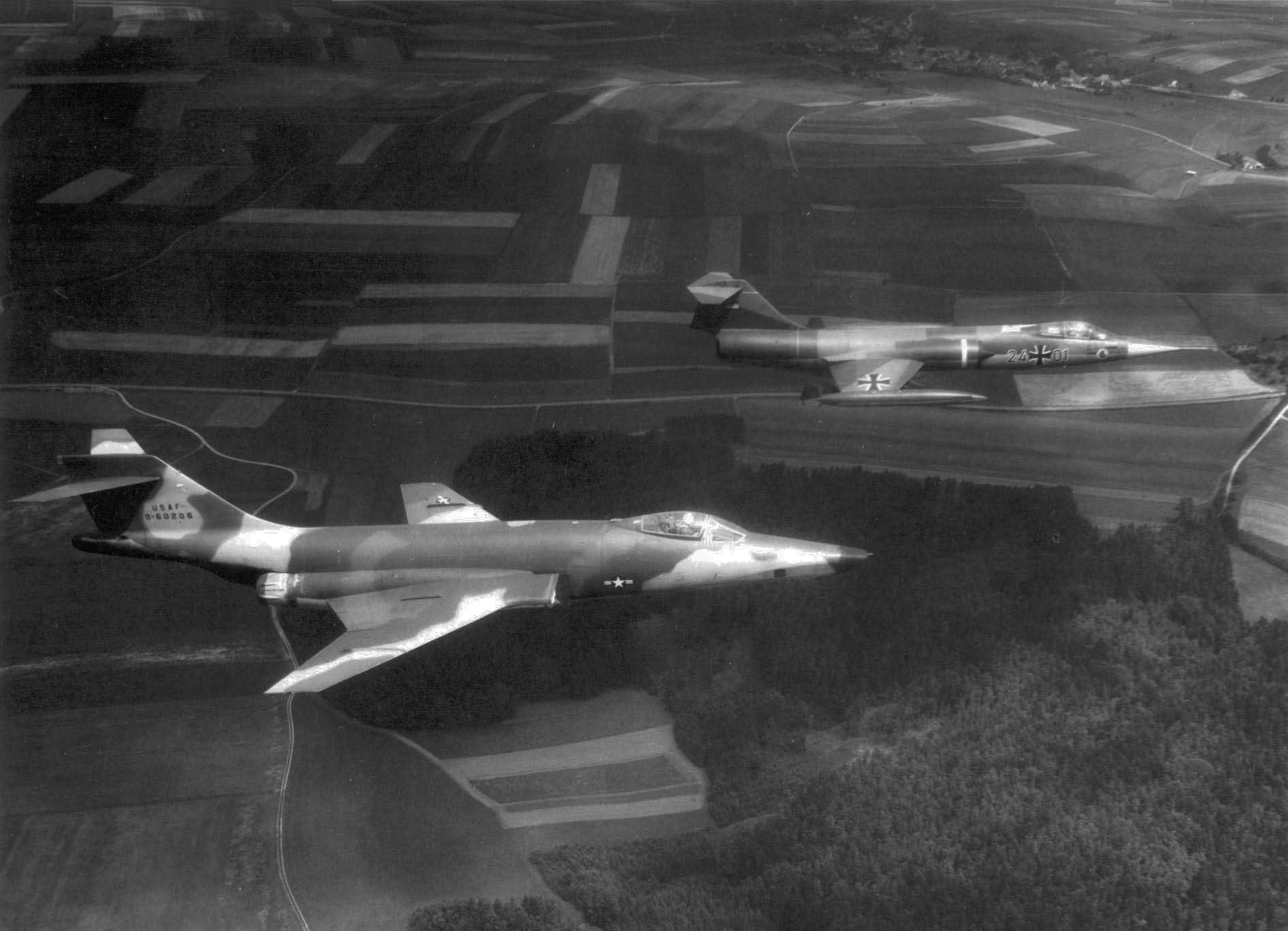 A U.S. Air Force McDonnell RF-101C-55-MC Voodoo (56-020?) from the 17th Tactical Reconnaissance Squadron, 66th Tactical Reconnaissance Wing at Upper Heyford (UK), flying in formation with a West German Luftwaffe Lockheed RF-104G Starfighter (24+01) from Aufklärungsgeschwader 51 „Immelmann“ (51st Reconnaissance Wing) at Bremgarten, Germany, in the 1960s.